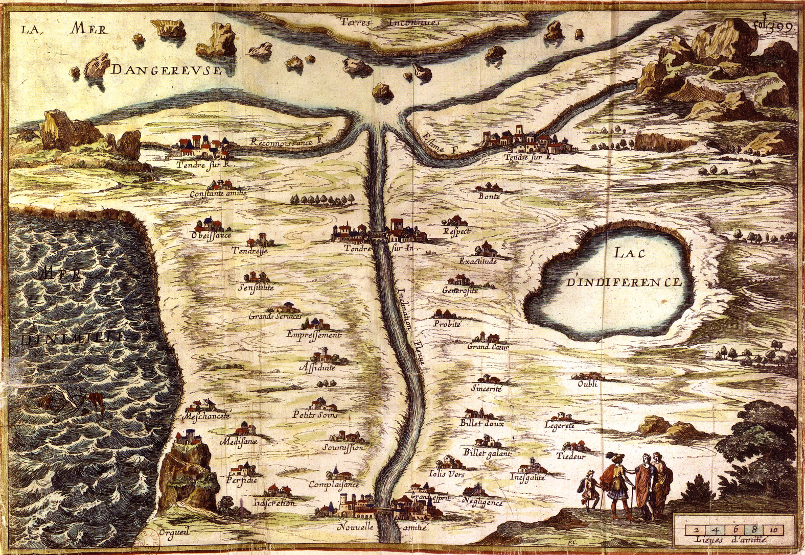 Allegorical map of the stages of love; starting near center top, one can go by way of the Reconaissance river (through the towns of Constante Amitié, Obeissance, Tendresse, Sensibilité, Grandes Services, Empressements, Assiduité, Petits Soins, Soumission, Complaisance) or by way of the Estime river (through the towns of Bonté, Respect, Exactitude, Generosité, Probité, Grand Coeur, Sincerité, Billet doux, Billet galant, Jolis Vers, and Grand esprit), or by way of the Inclination river (the most direct route) to arive at the goal of Nouvelle Amitié. However, avoid Meschanceté, Médisance, Perfidie, Indiscretion, and Orgueil near the Mer d'Inimitié, as well as Oubli, Legereté, Tiedeur, Inegalité, and Negligence on the side of the Lac D'Indiference...